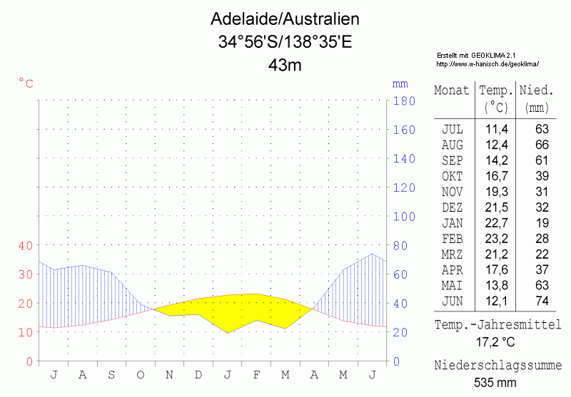 climate chart in the format by Walther and Lieth, metric, °Celsisus and millimeters, made with Geoklima 2.1